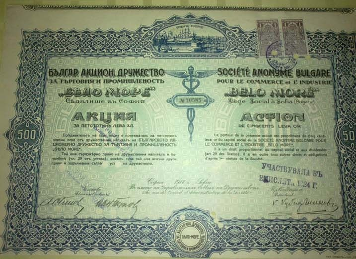 Акция на стойност 500 лв на БАД Бело море